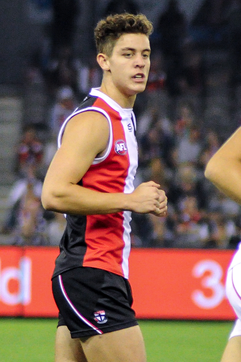 Nick Coffield during the AFL round five match between St Kilda and Greater Western Sydney on 21 April 2018 at Etihad Stadium in Melbourne, Victoria.